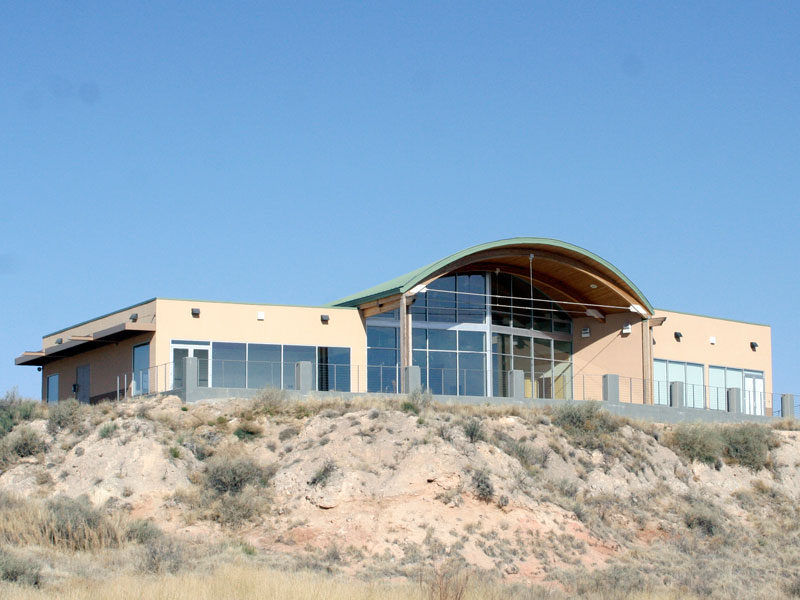 Straddling the Pecos River, Bitter Lake NWR is truly a jewel, a wetland oasis inhabitated by a diverse abundance of wildlife species. The Refuge protects and provides habitats for some of New Mexico's most rare and unusual creatures.